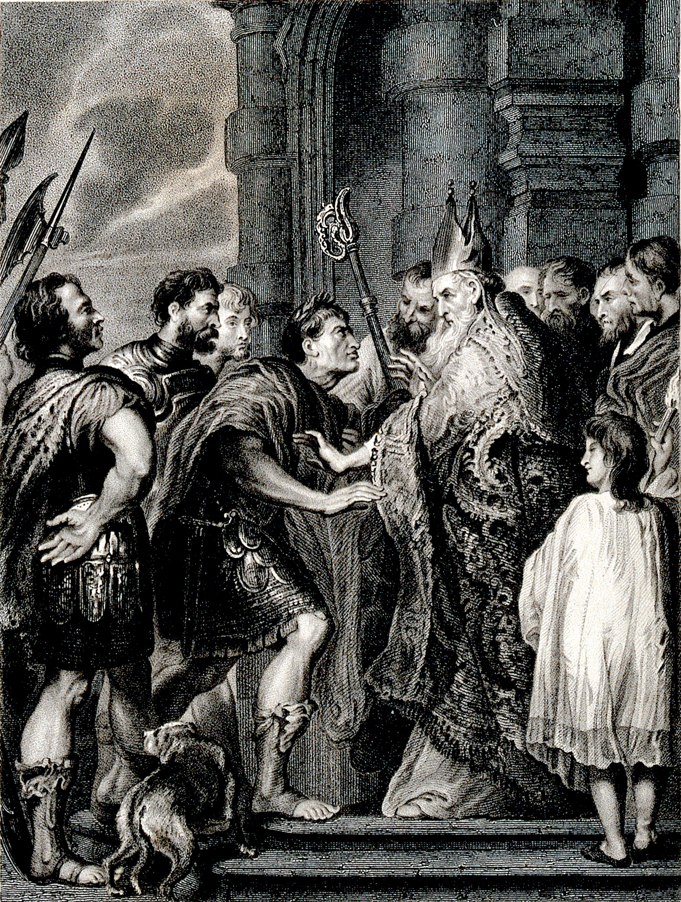 Saint Ambrose barring Emperor Theodosius from Milan Cathedral. Steel engraving representing Saint Ambrose Archbishop of Milan.